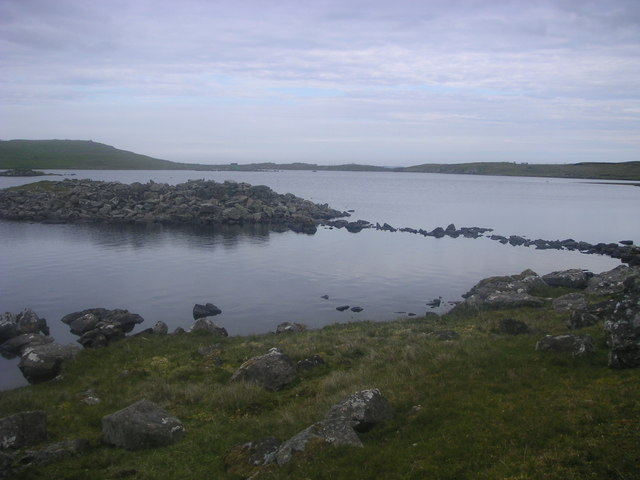 Huxter Fort Connected to the shore by a stone built causeway this iron-age blockhouse still has some fine walling visible, although a great many stones must have been taken away for other use throughout the centuries.